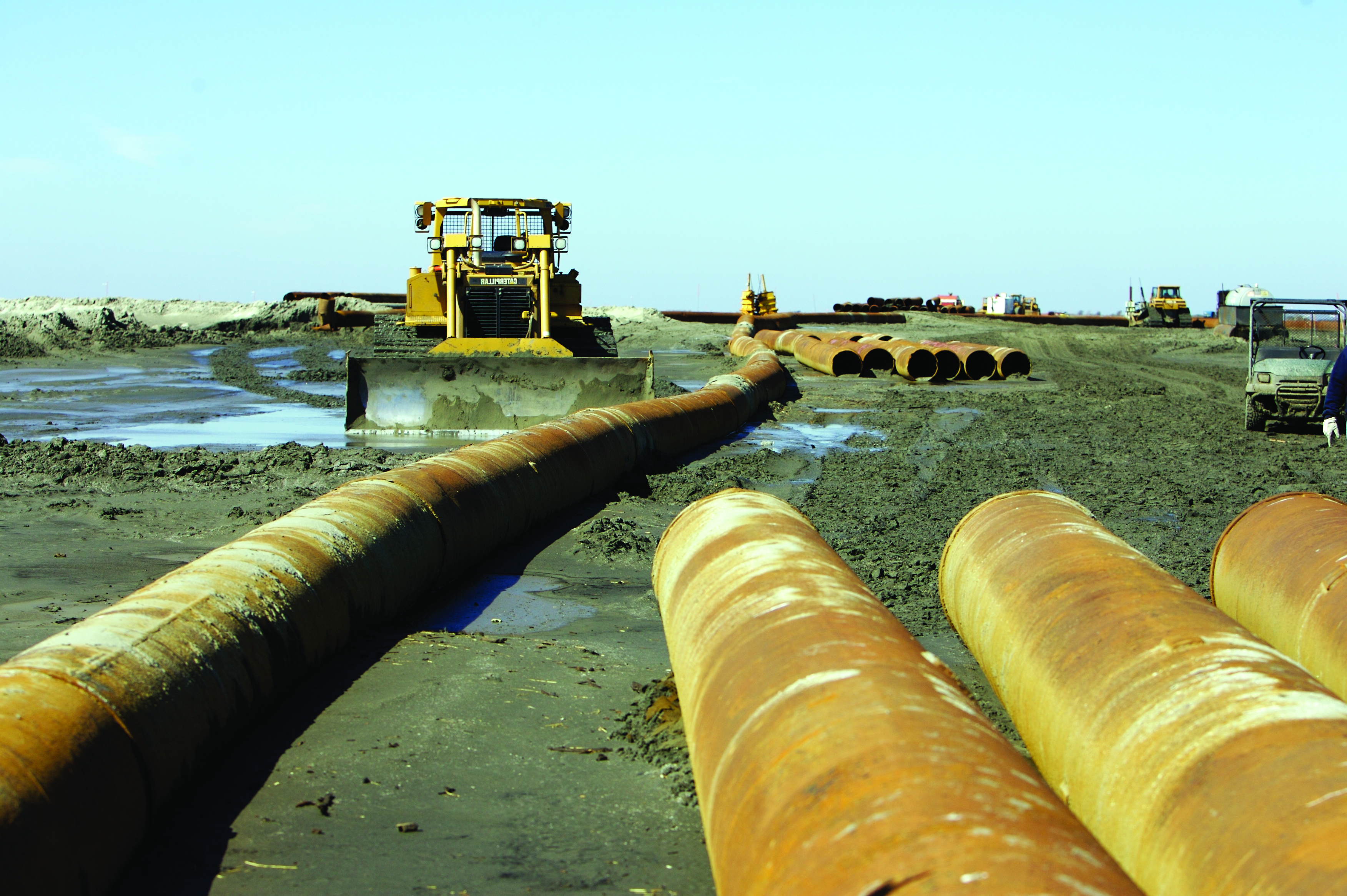 A lot of strategic planning goes into restoring the wetlands.